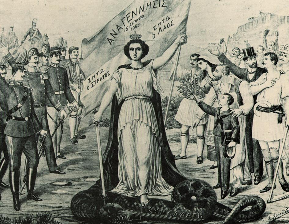 Greek lithograph celebrating the success of the Goudi coup of August 1909 as a national rebirth and the end of the old political system.